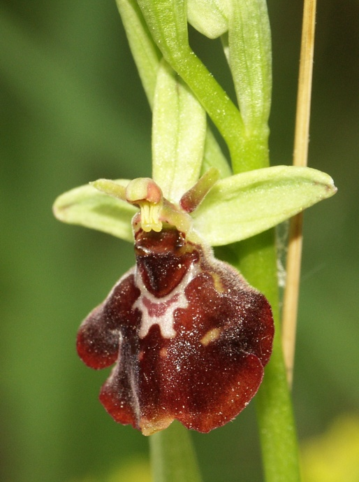 Ophrys × devenensis (holoserica × insectifera)